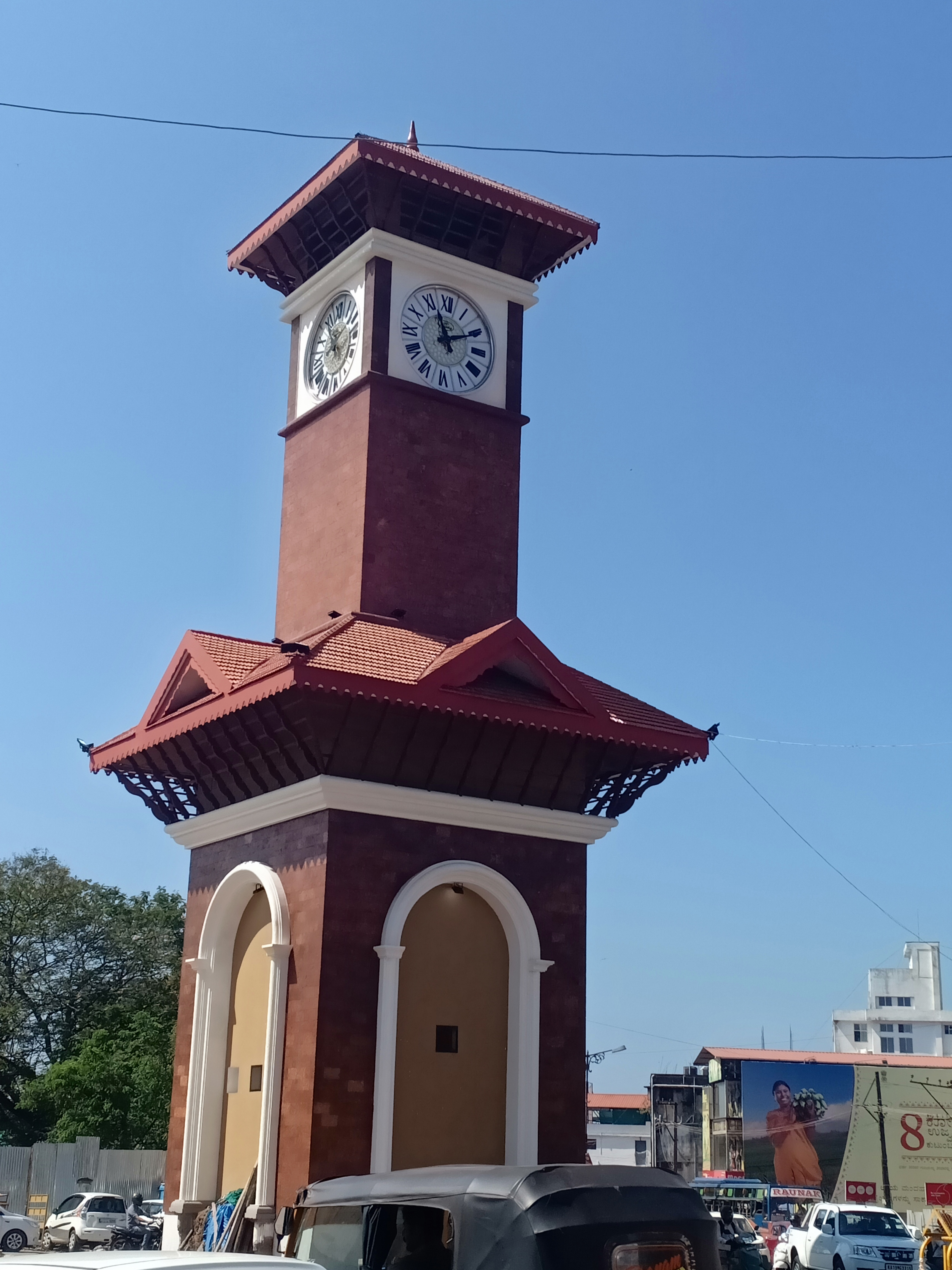 Clock Tower circle at Hampankatta in Mangalore - 2